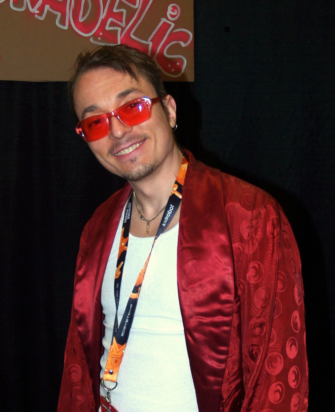 Pop artist The Sucklord at the Meadowlands Exposition Center in Secaucus, New Jersey on April 16, 2016, Day 1 of the 2016 East Coast Comicon. This photo was created by Luigi Novi. It is not in the public domain, and use of this file outside of the licensing terms is a copyright violation.